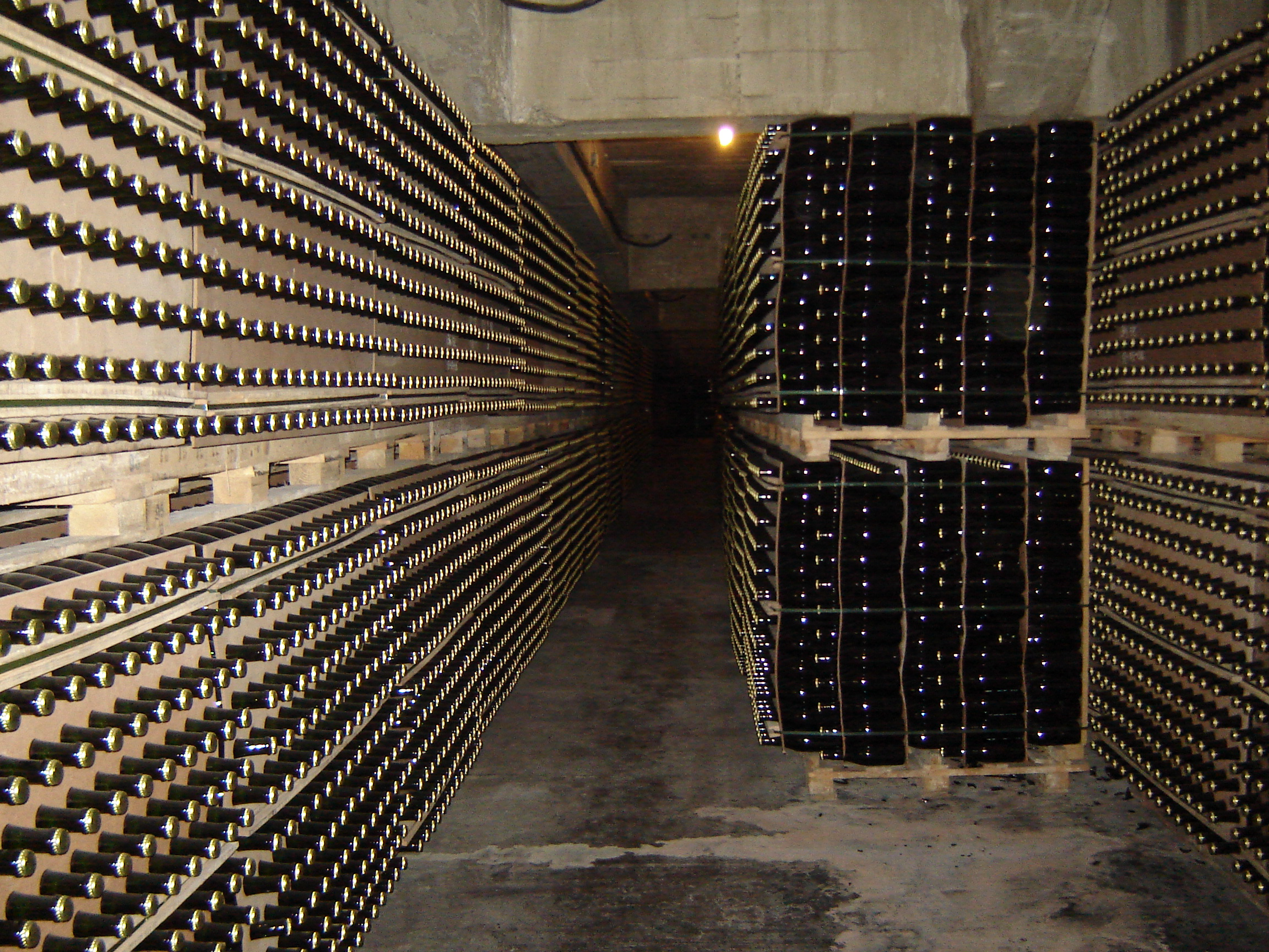 Museum of the Codorníu caves on the domains of Codorníu. Sant Sadurní d'Anoia, comarca Alt Penedès, province of Barcelona, Catalonia, Spain.